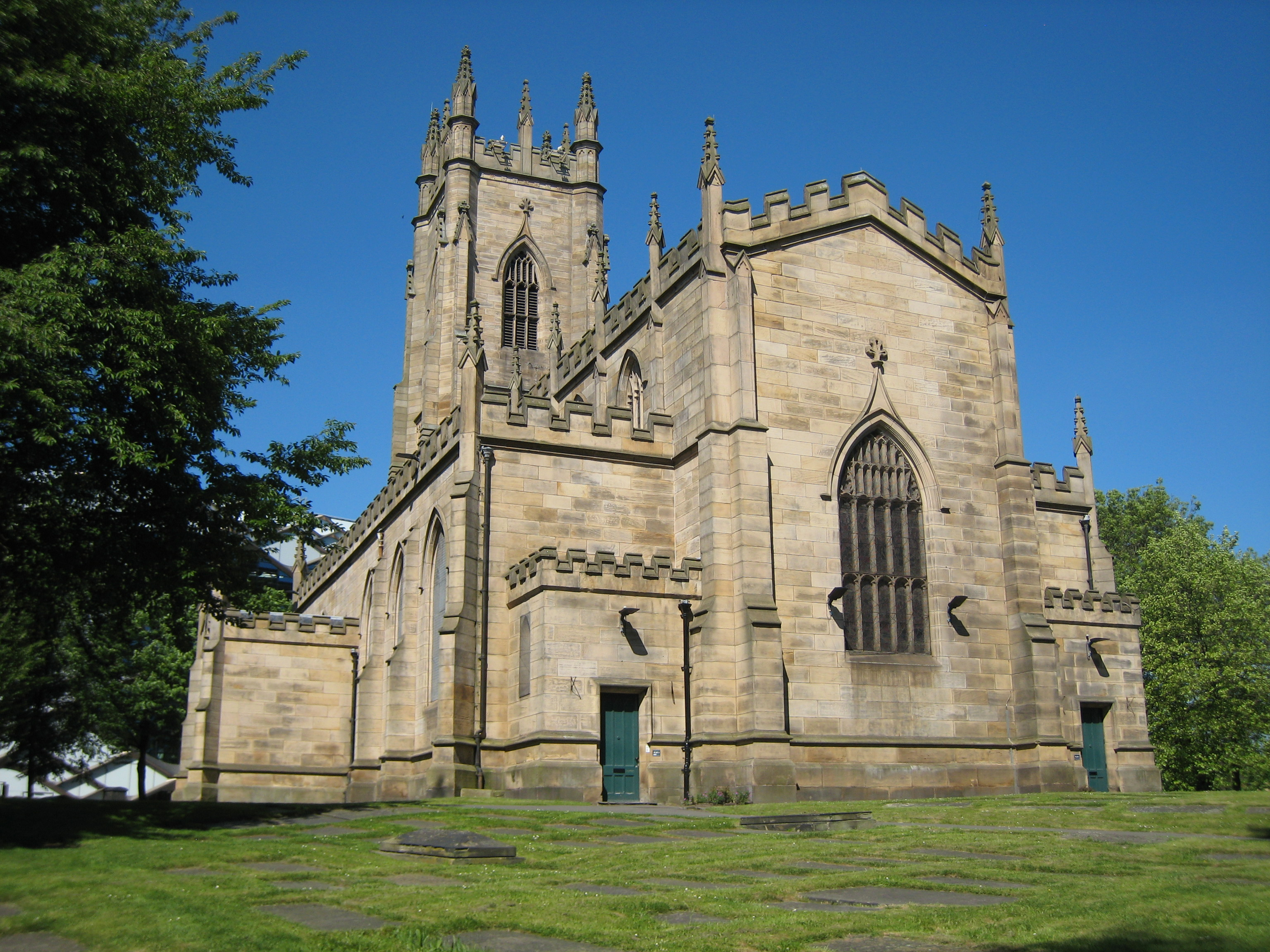 Former parish church of St George, Sheffield, South Yorkshire, seen from east-southeast